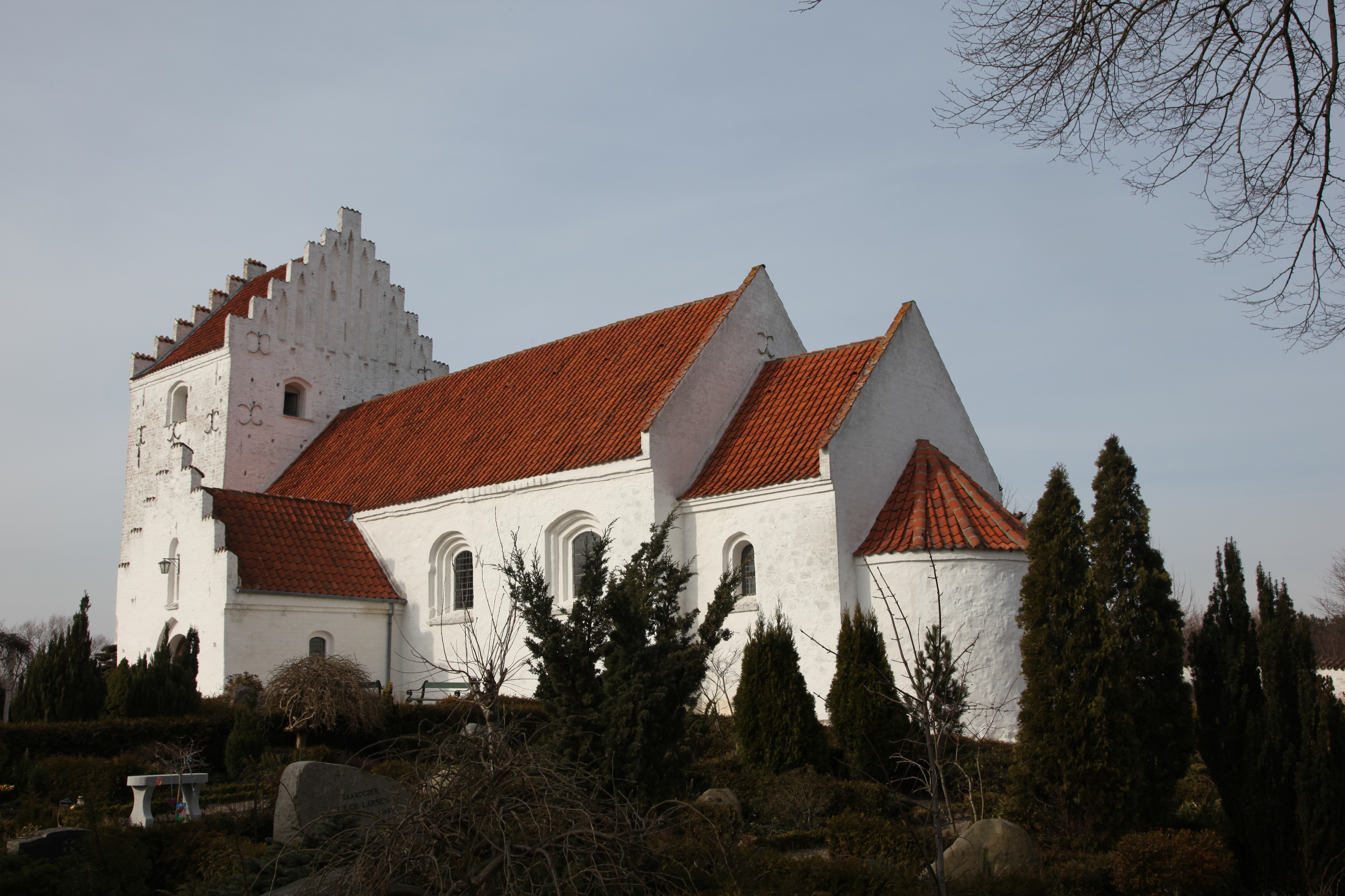 Ågerup church, Denmark